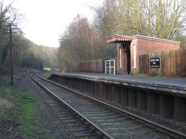 No trains today Country Park Halt on the SVR. After the devastation of the floods during July 2007 the line is due to open again in 5 weeks (Easter 2008).